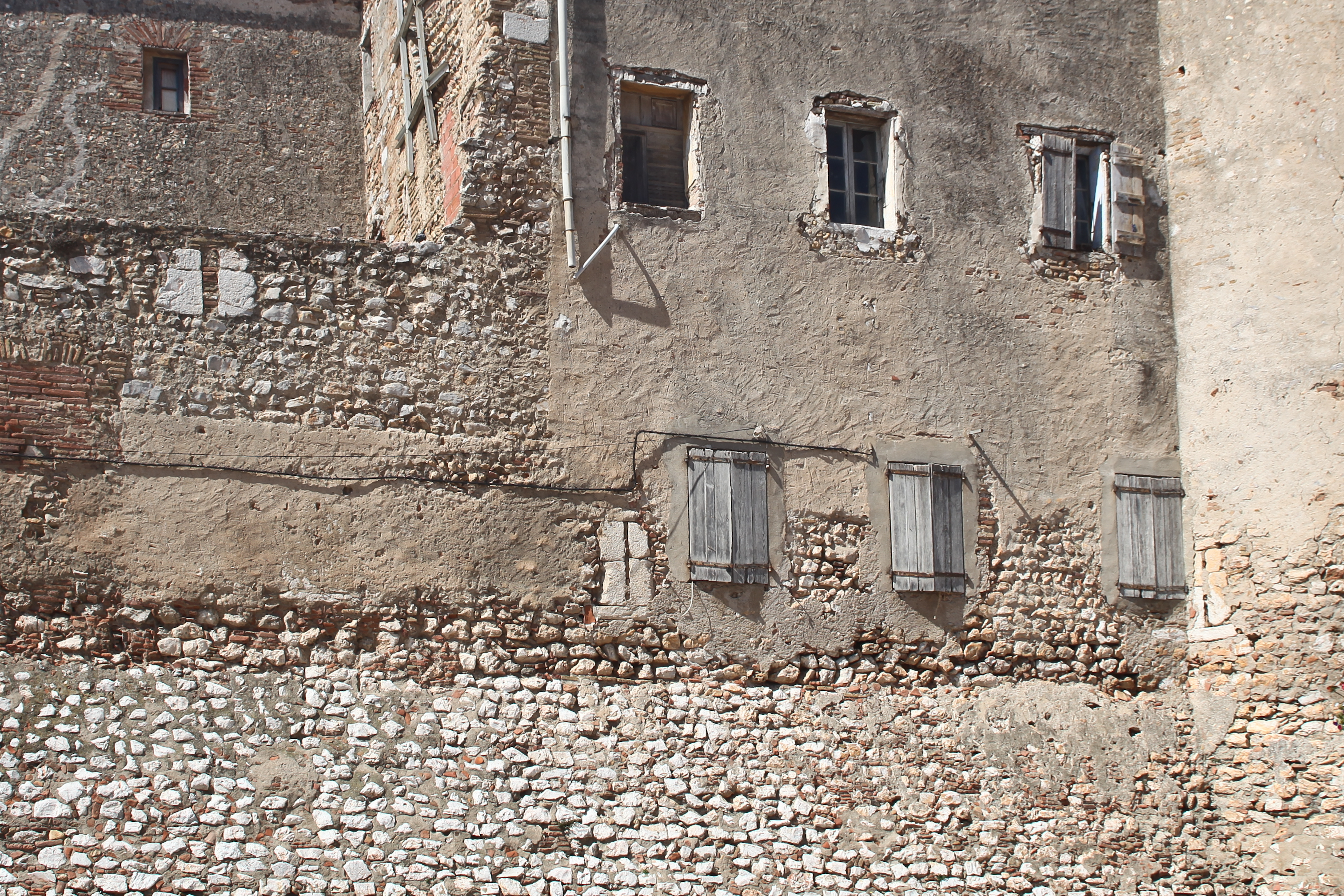 Saint-Hippolyte Castle, east facade, France .